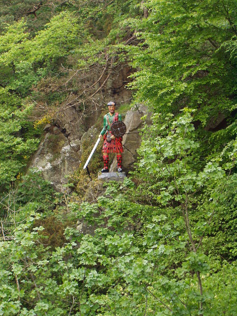 Rob Roy MacGregor Statue. 4th Version of the statue overlooking Culter Burn. Where Rob Roy may have escaped from English Red Coats